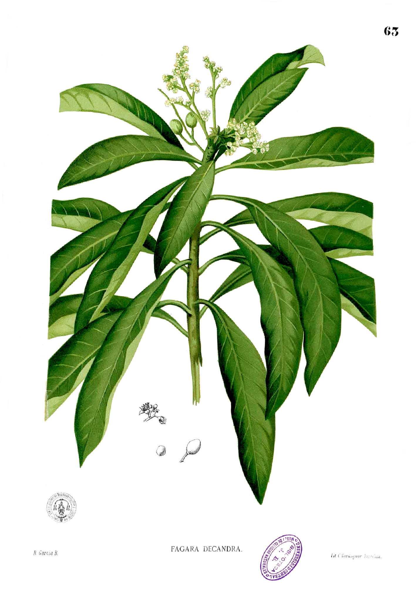 Plate from book